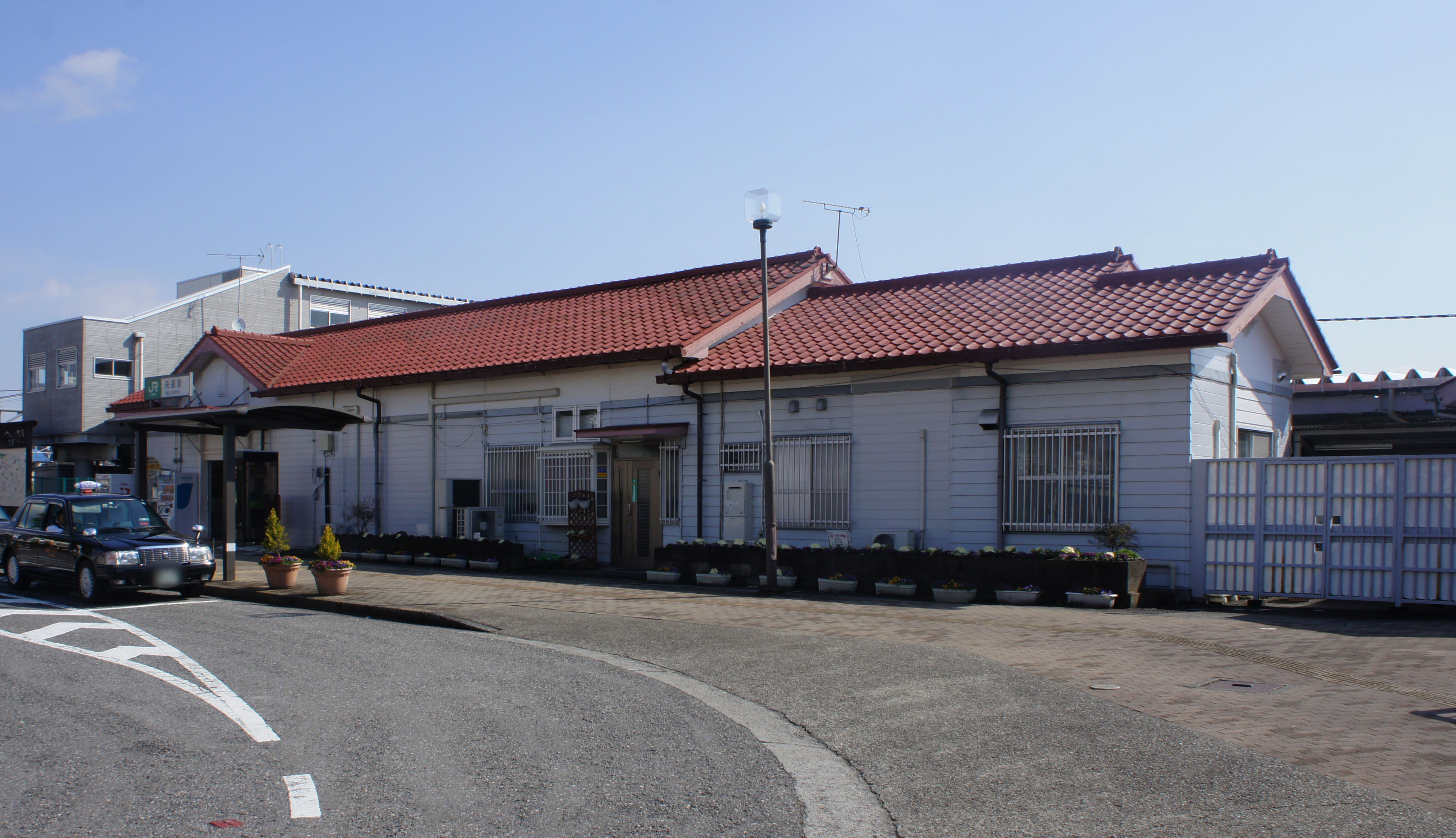 Station building of JR Tohoku-Main-Line (Utsunomiya-Line) Yaita Station Sony NEX-3